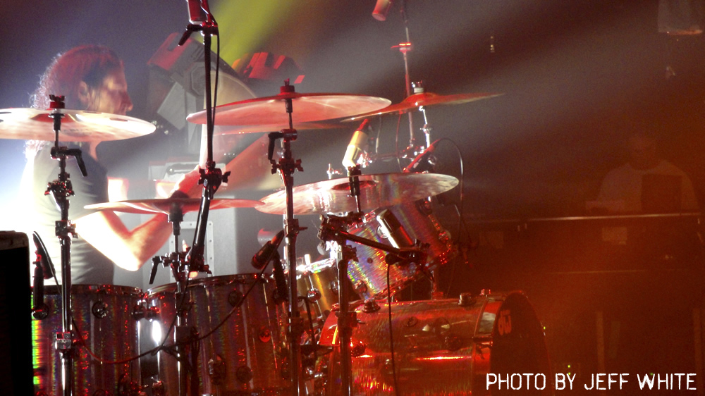 Sean Kinney live at 2009